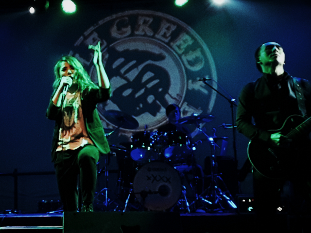 Greedy Black Hole's Live Concert at Legacy Taipei.